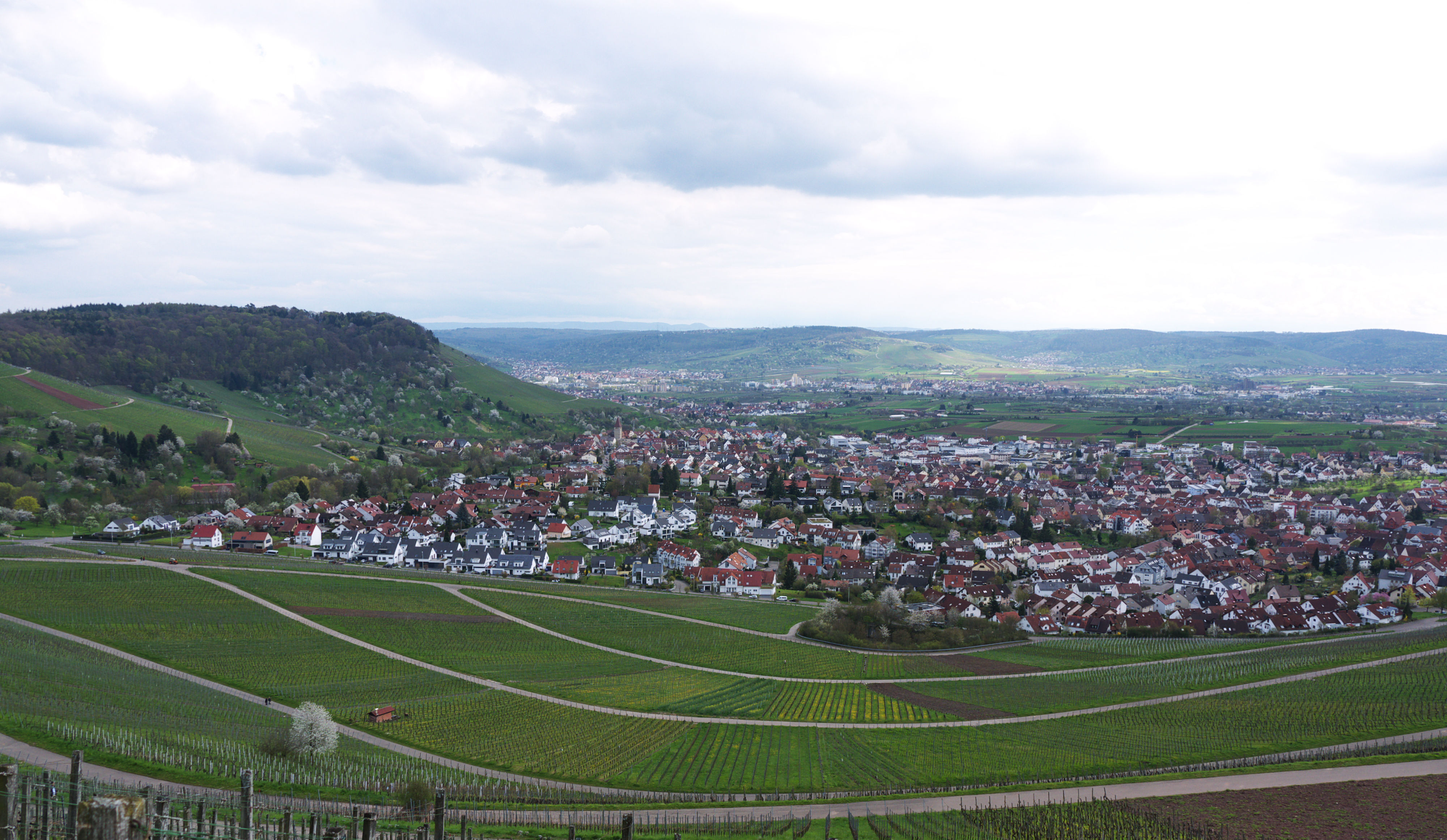 view from north at Korb, Baden-Württemberg, germany